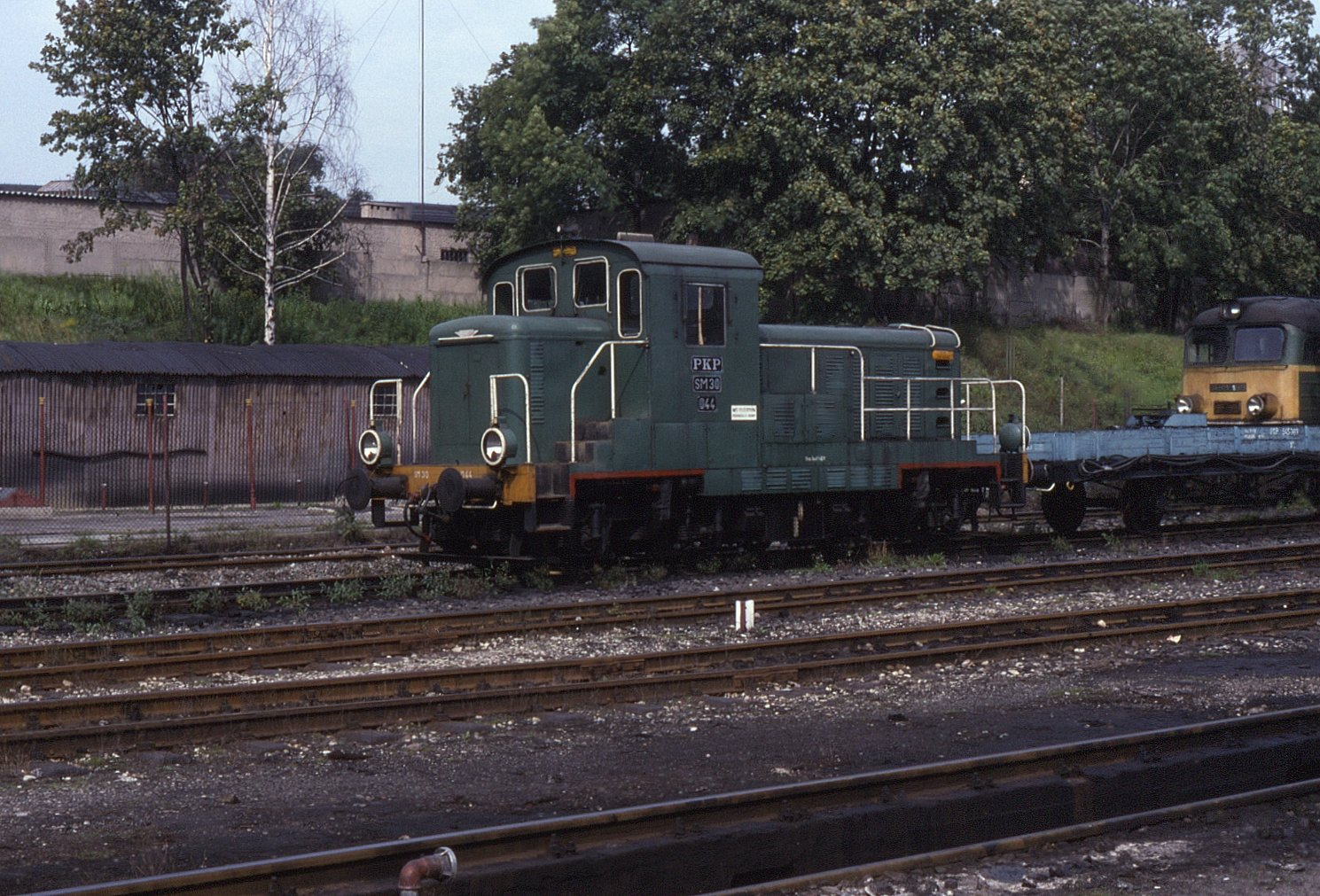 Class SM30 shunter, SM30-044 seen at Olsztyn on 14 May 1995.